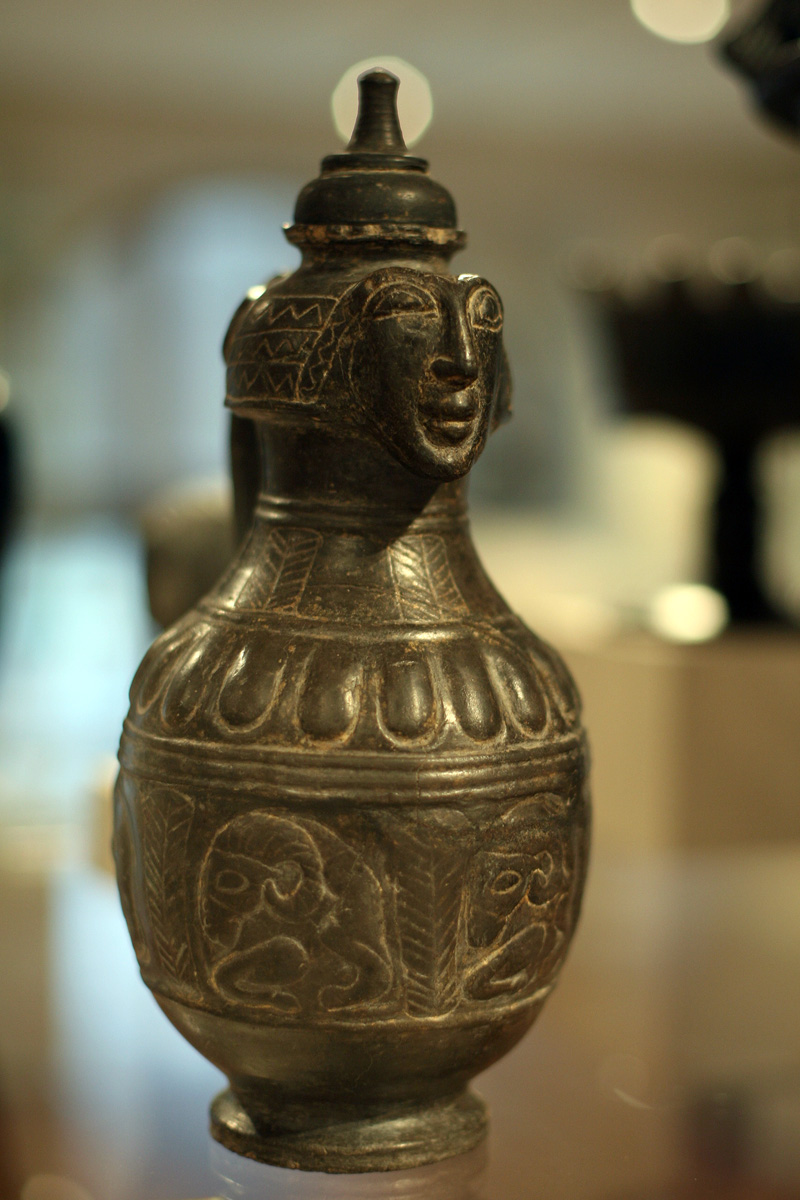 Metropolitan Museum of Art # 96.9.80a,b Photographer: Katie Chao